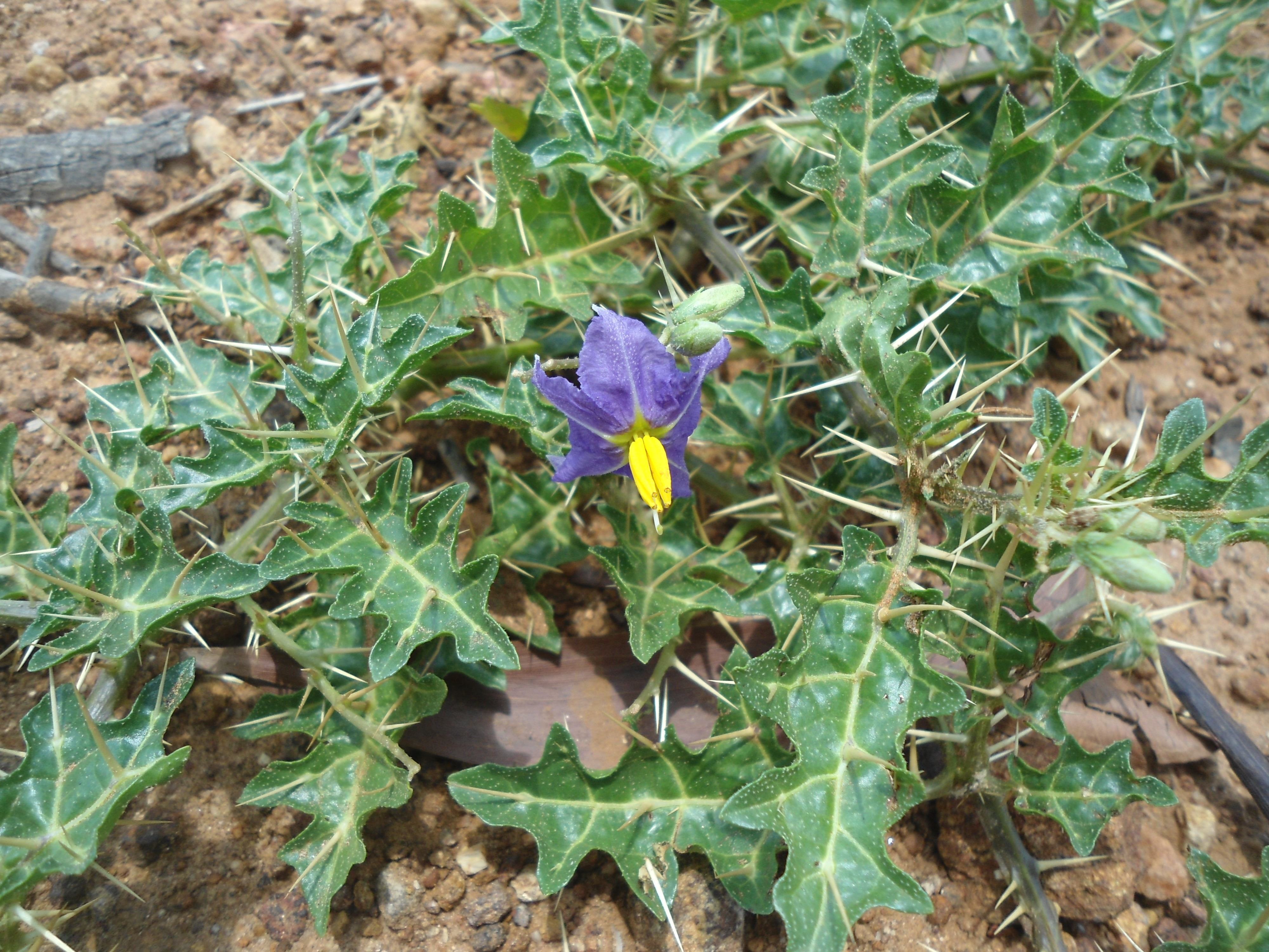 (Solanum surattense) Shrub at Kambalakonda Wildlife Sanctuary, Visakhapatnam